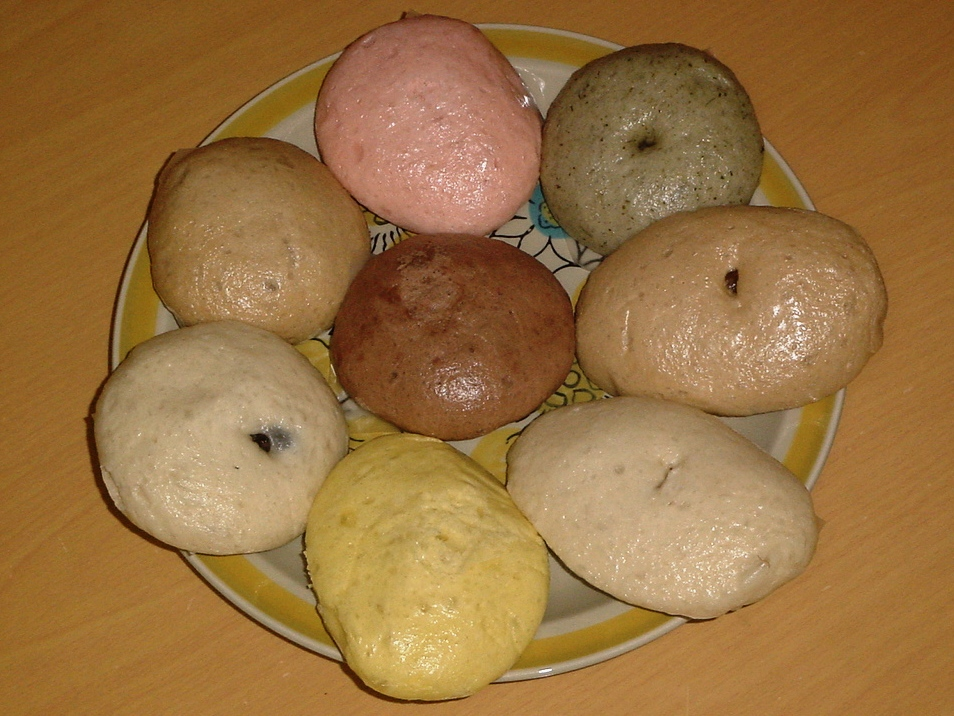 8 variety of Rouken mantou or a kind of sweet steamed buns of Matsuyama City, Ehime Pref.